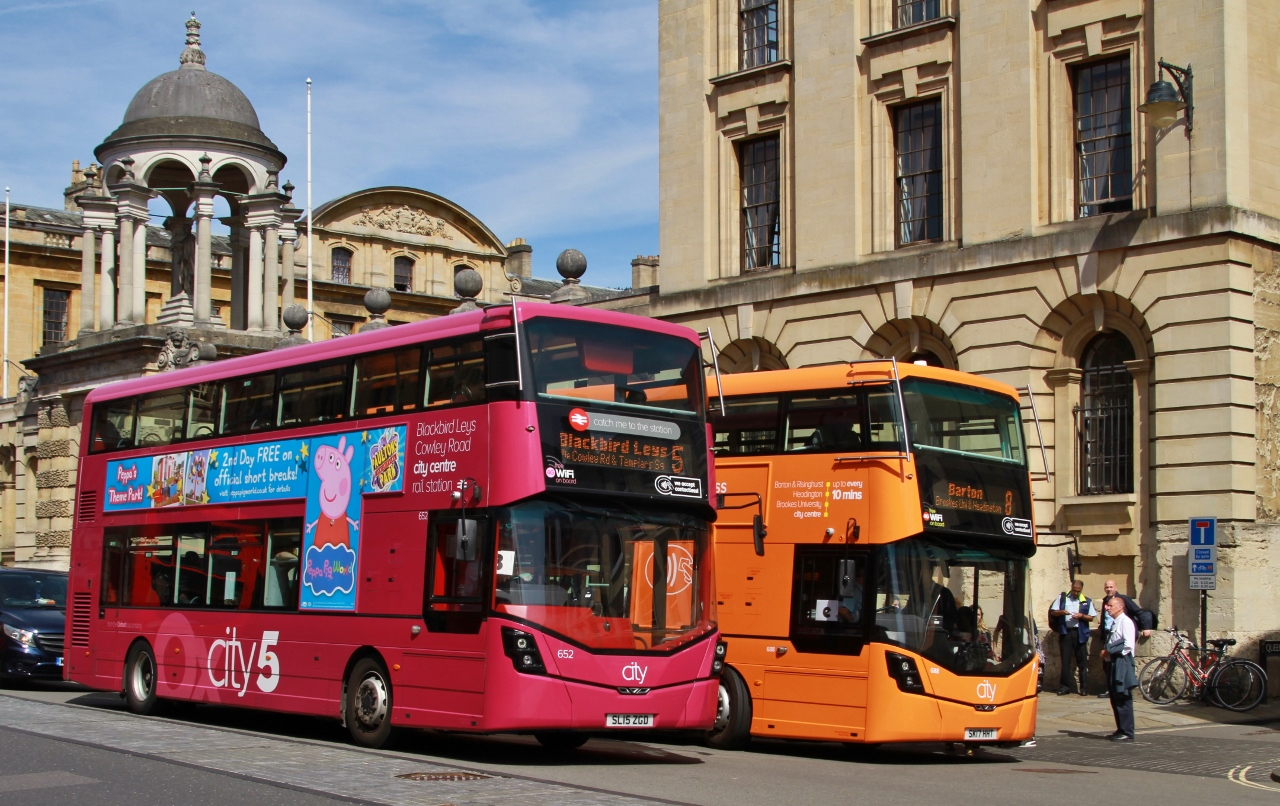 Two Wright Streetdeck buses in Oxford Bus Company City branded liveries outside The Queen's College, High Street, Oxford. The pink bus centre left is SL15 ZGD, fleet number 652, in the pink livery of route City5. The orange bus centre right is SK17 HHT, fleet number 688, in orange livery on route City8.